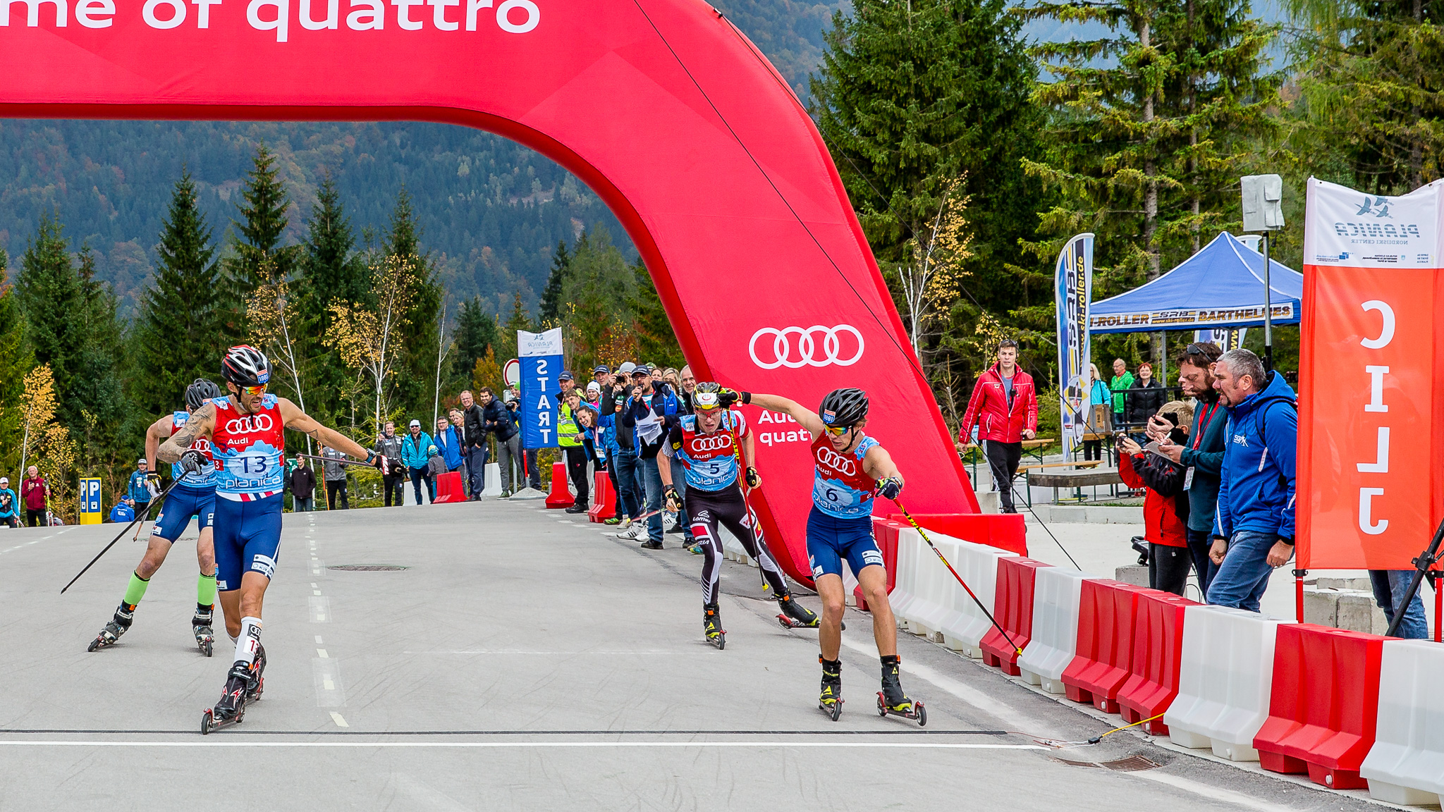 Summer Grand Prix Competition Planica 2017